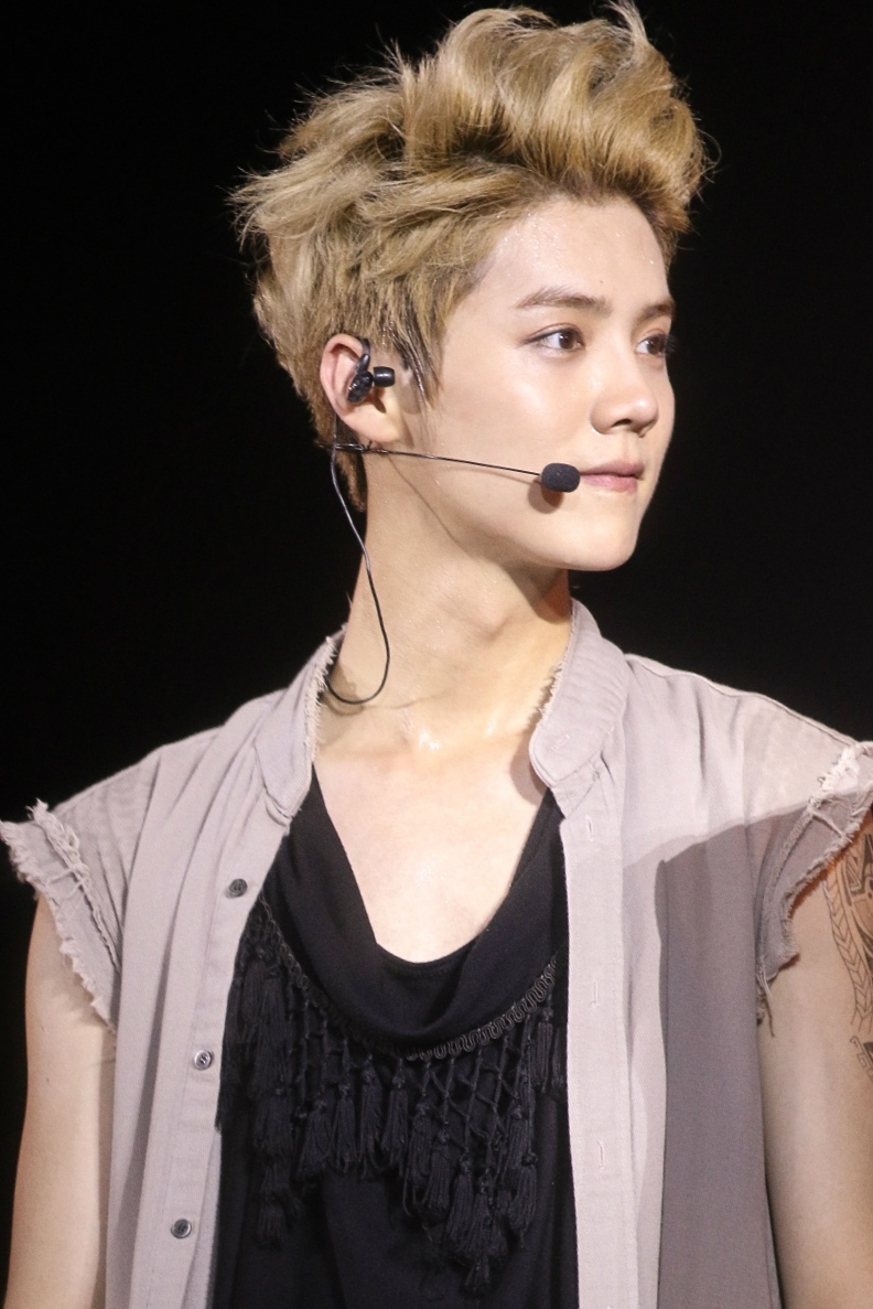 Luhan at the EXO The Lost Planet in Jakarta on September 6, 2014.